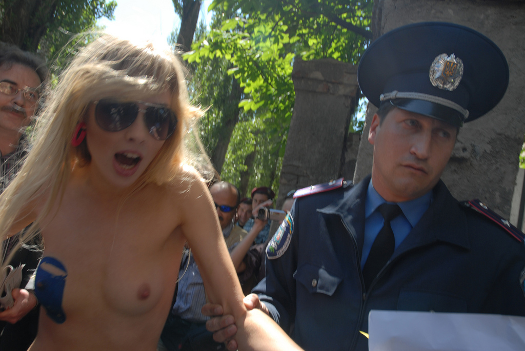 An Interior Ministry officer detains an activist from the Ukrainian female rights organization "Femen" as she takes part in a demonstration in front of the Russian embassy in Kiev May 27, 2010. The activists, who painted their breasts in blue, showed their support for the so-called "blue bucket protesters" who are demanding that Russian authorities ban the blue strobe lights installed on the cars of officials, which reportedly cause traffic accidents. photo FEMEN / Taya Stetsenko